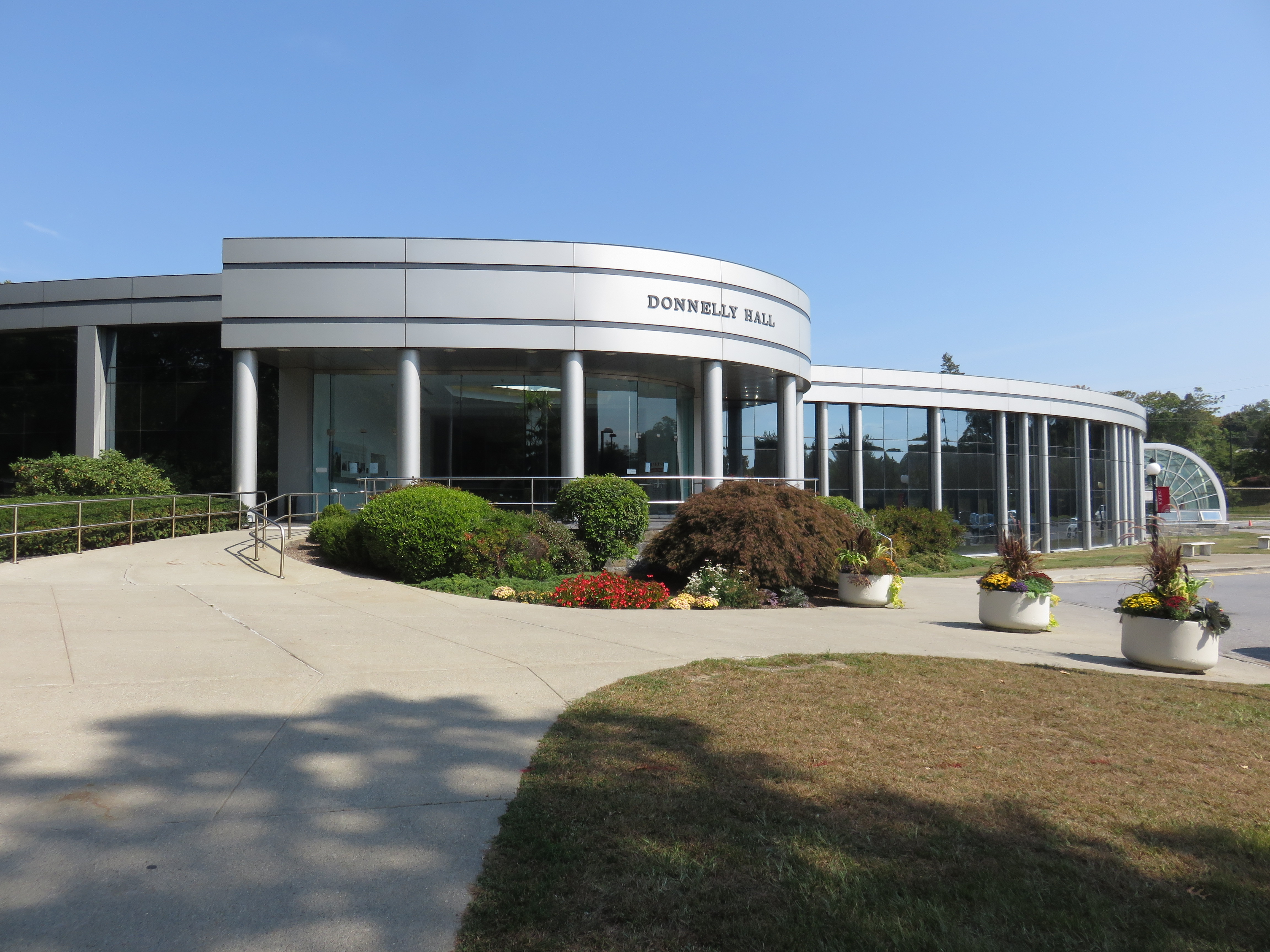 Building at Marist College in Poughkeepsie, New York